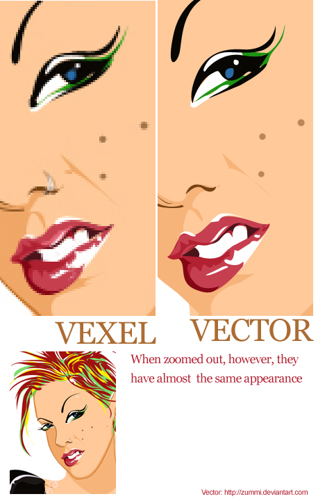 Vector by me